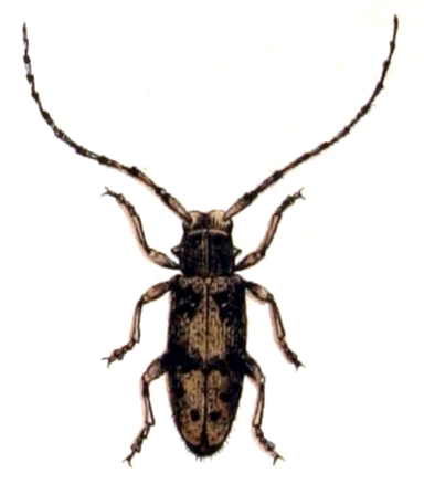 Exocentrus lusitanus, from Calwer's Käferbuch, Table 38, Picture 11. Taxonomy was updated to 2008, using mostly the sites Fauna Europaea and BioLib. Please contact Sarefo if the determination is wrong!